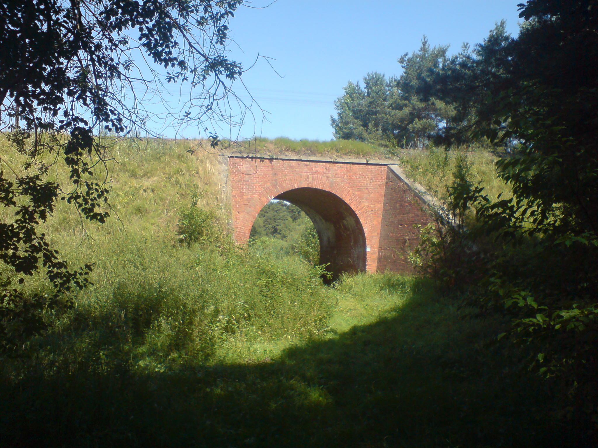 linia pkp